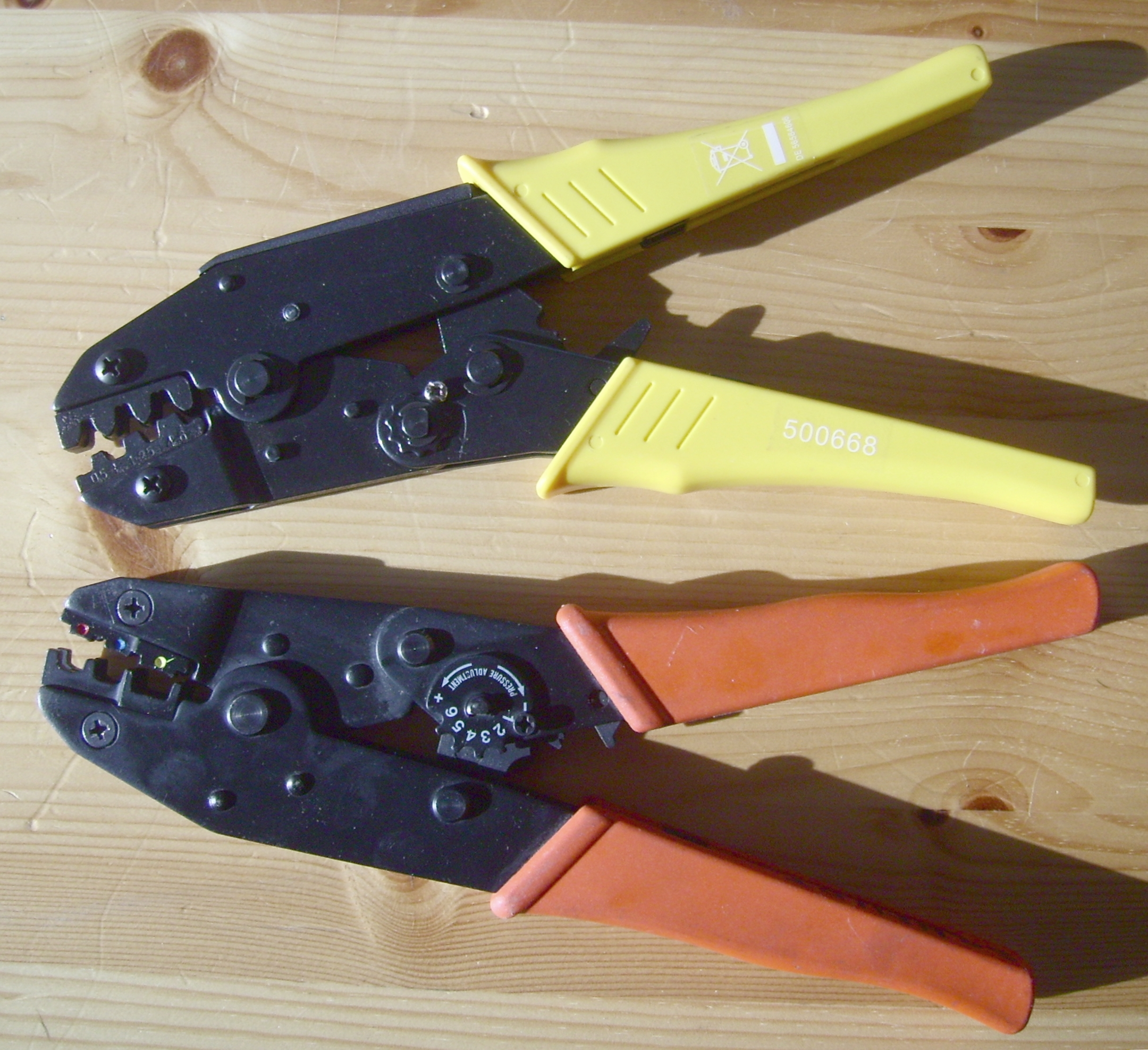 Crimping tool for unisolated (uppper) and isolated (lower) FASTON connector plugs